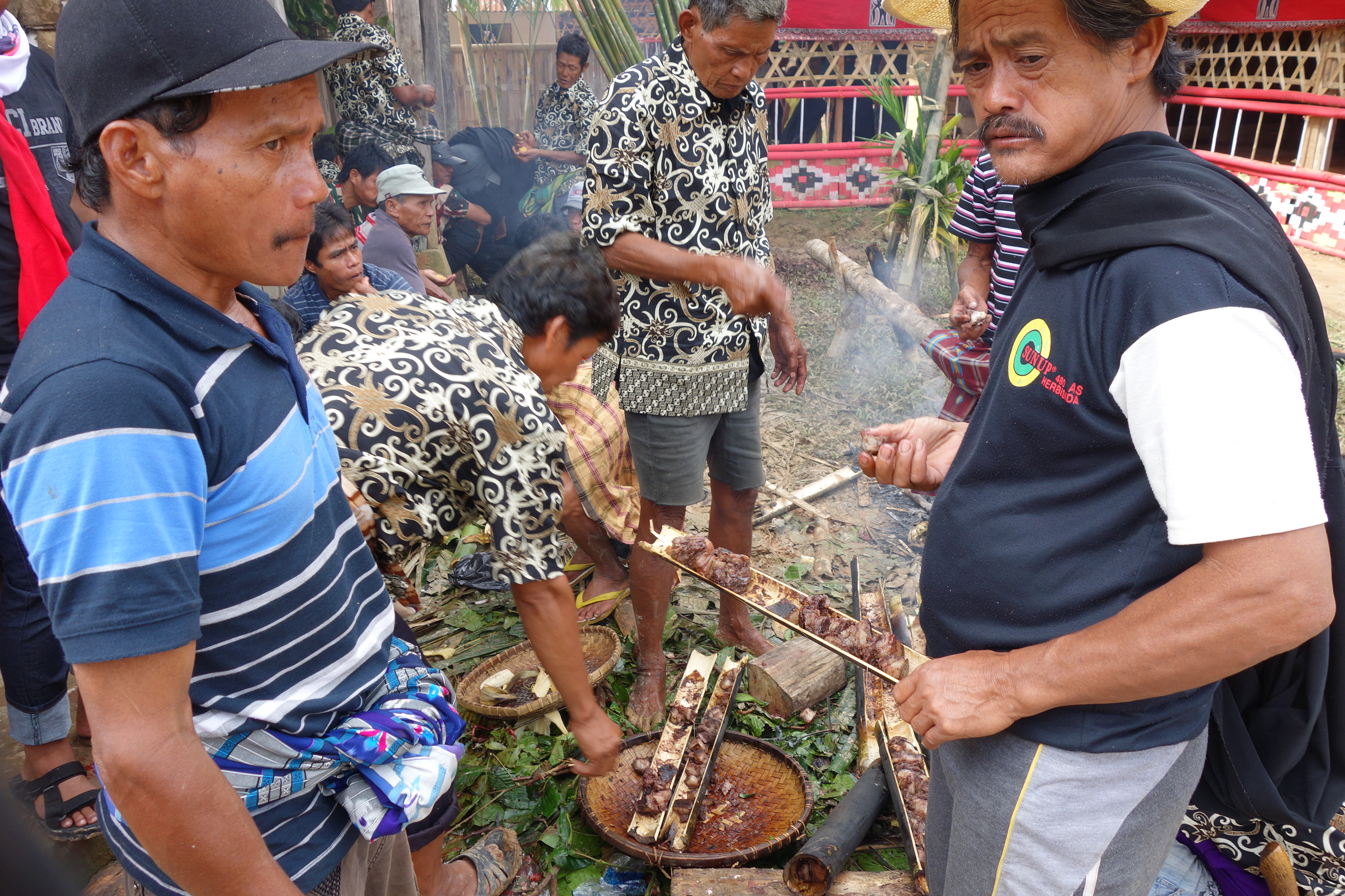 Toraja men eating pork cooked in bamboo poles ("Pa-piyong") at a wake ceremony in Rantepao community